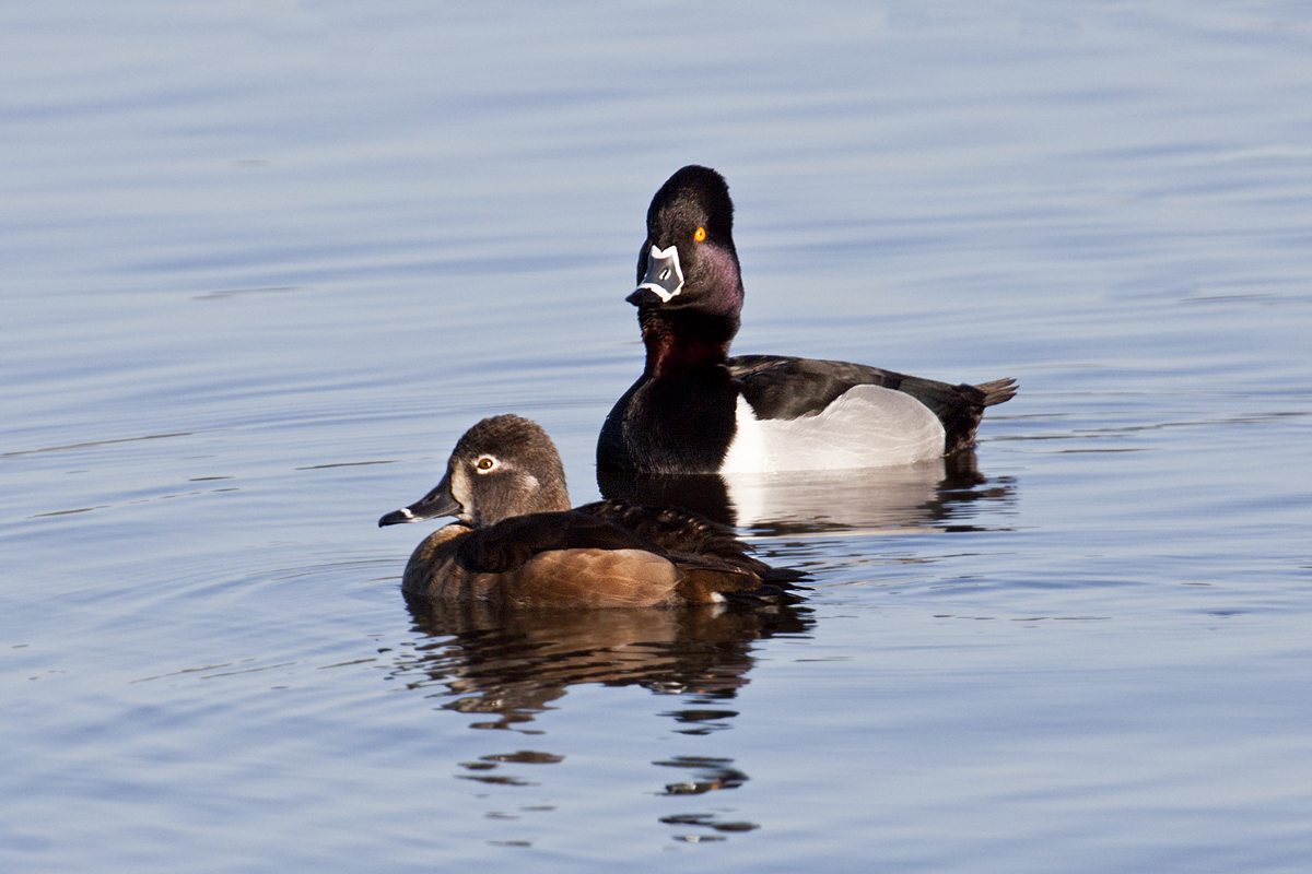 Ring-necked Duck Aythya collaris, male (right) and female (left), Santa Margarita Lake, San Luis Obispo Co., California, USA